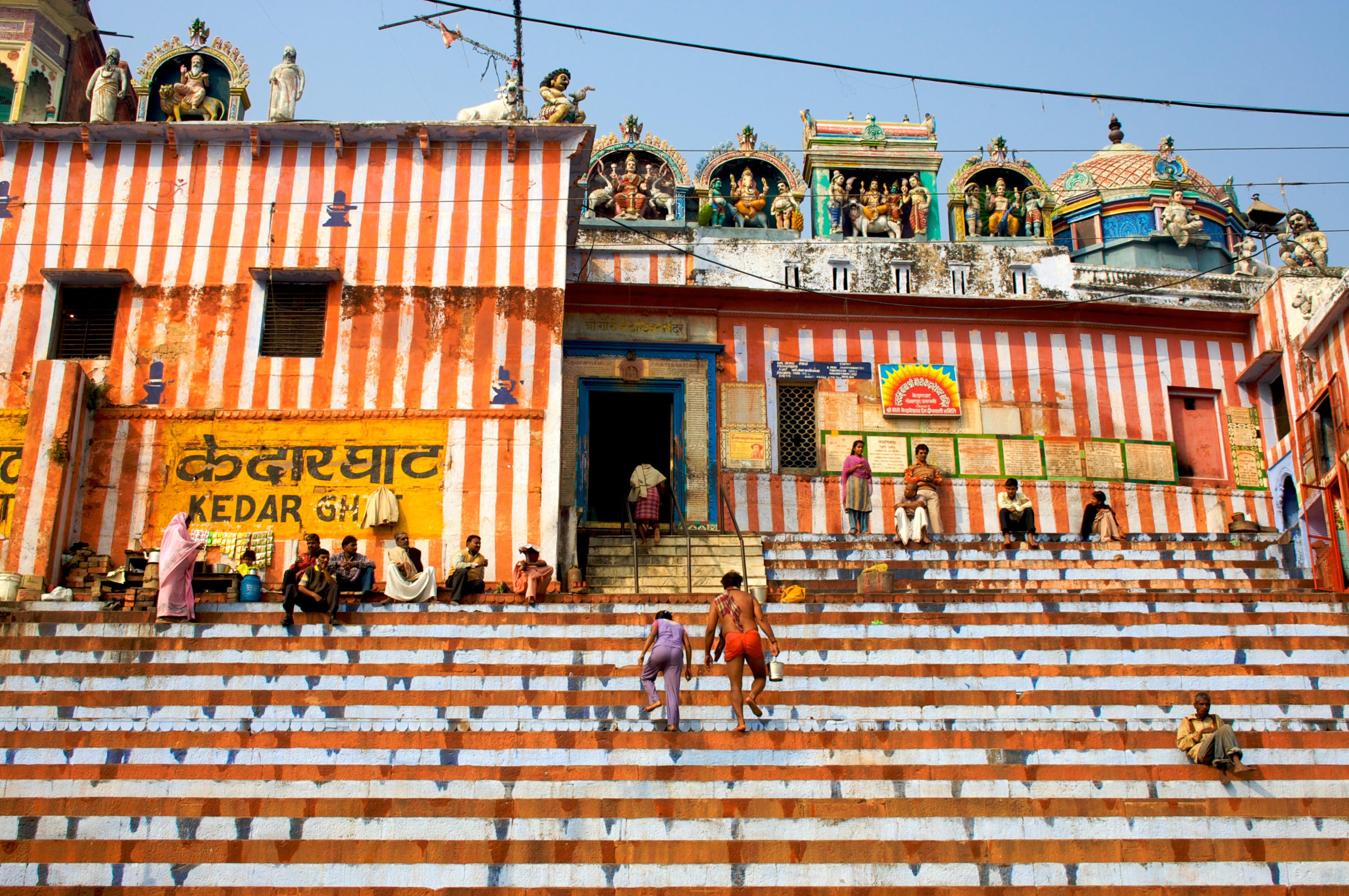 Kedar Ghat on the Ganges, Varanasi